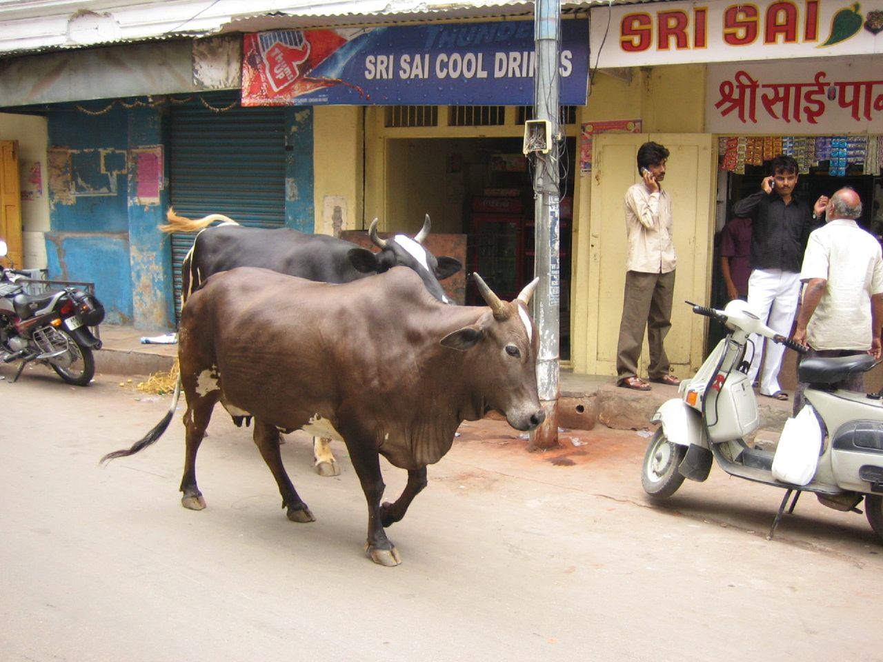 Two cows walking past shops named Sri Sai (after Sai Baba) in Hyderabad.